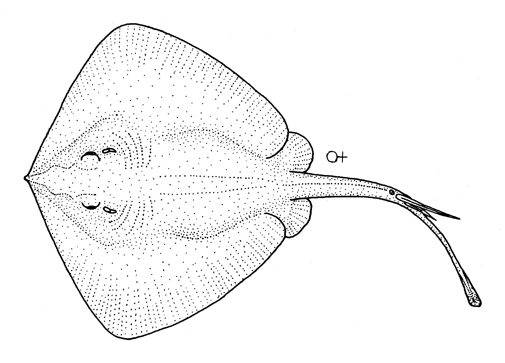 Dasyatis brevicaudata (Short-tail stingray)